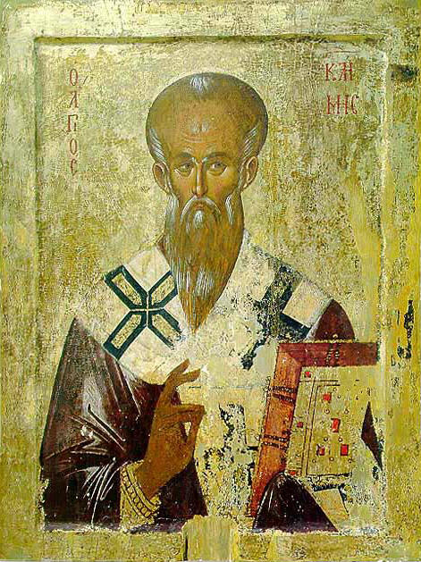 Saint Climent of Ohrid